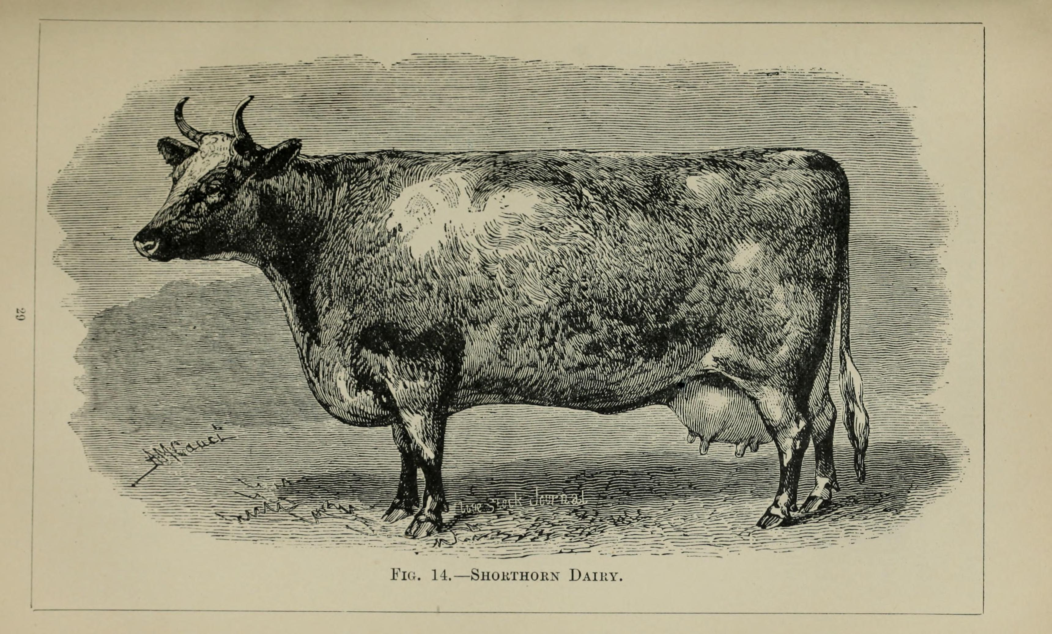 Title: Cow-keeping in India, a simple and practical book on their care and treatment, their various breeds, and the means of rendering them profitable Year: 1900 (1900s) Authors: Tweed, Isa Subjects: Cattle Publisher: Calcutta, Thacker, Spink Text Appearing Before Image: ' Text Appearing After Image: r,i:^:Wifl;li!!ij;j;lHlfti;i'^^^ 29